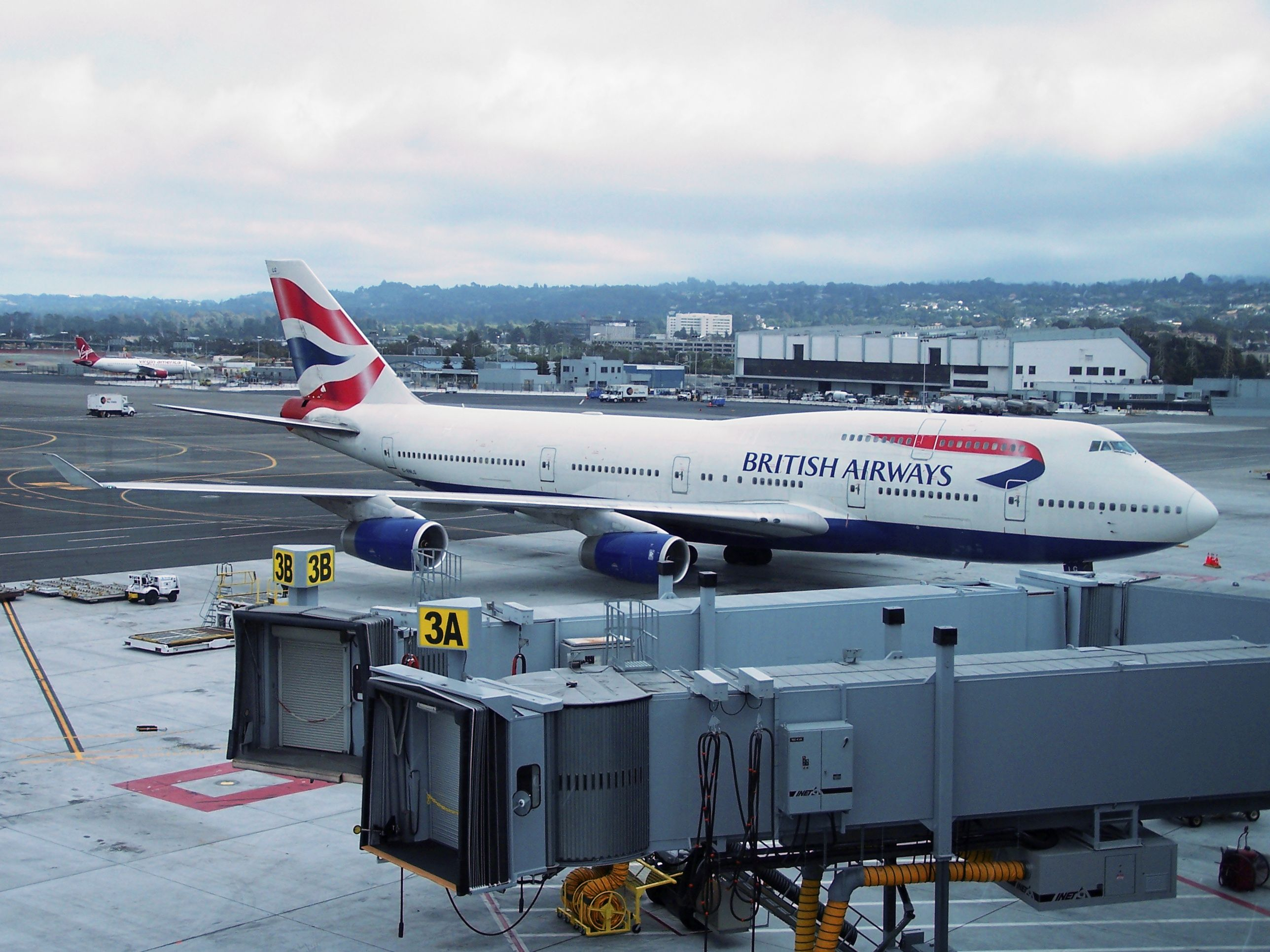 British Airways 747-436 G-BNLG taxiing to gate at the International Terminal, Concourse A, at San Francisco International Airport (SFO), operating as BA Flight #287 on May 31st, 2008.